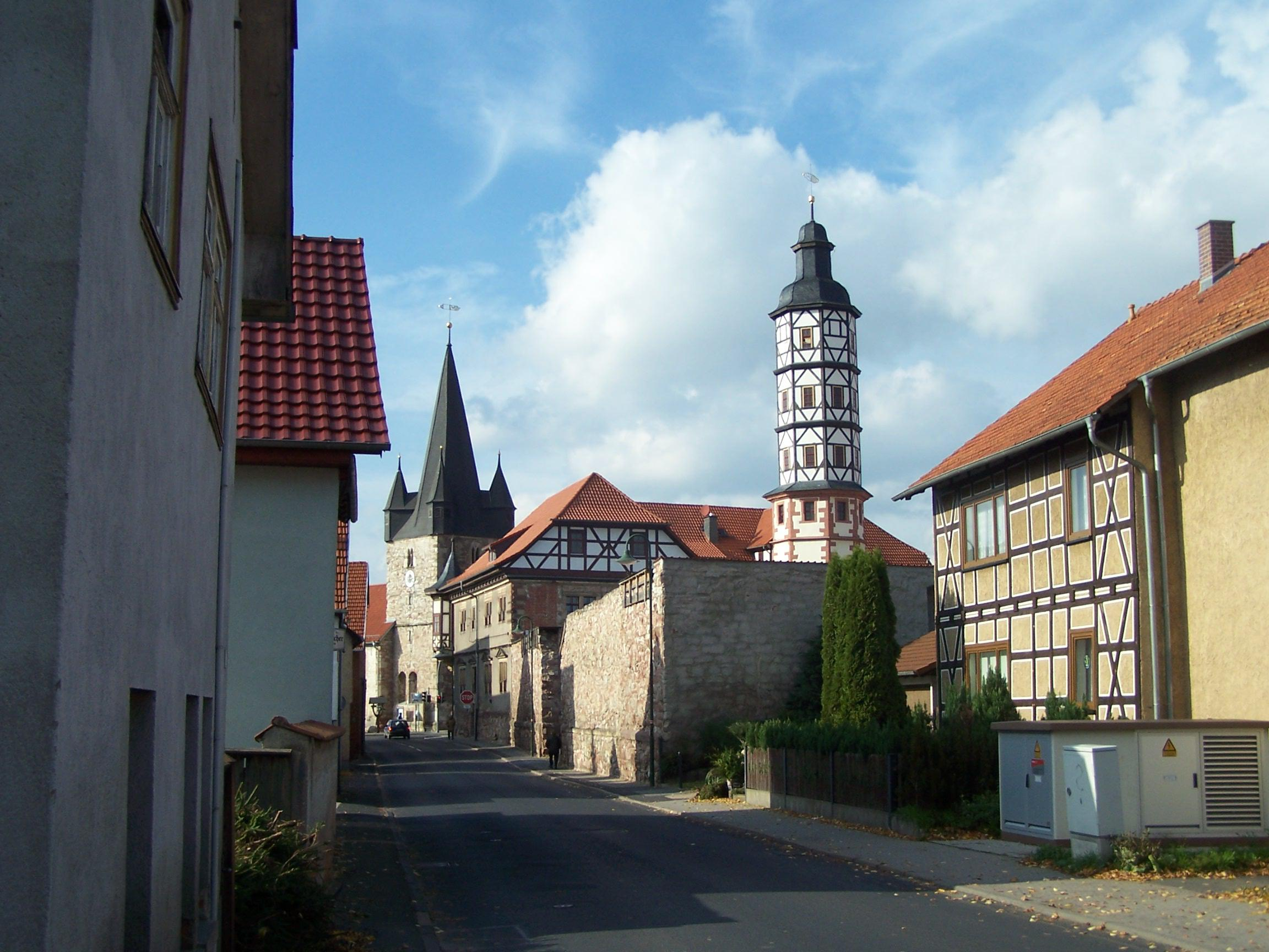 The Wall of the Castle in Marksuhl